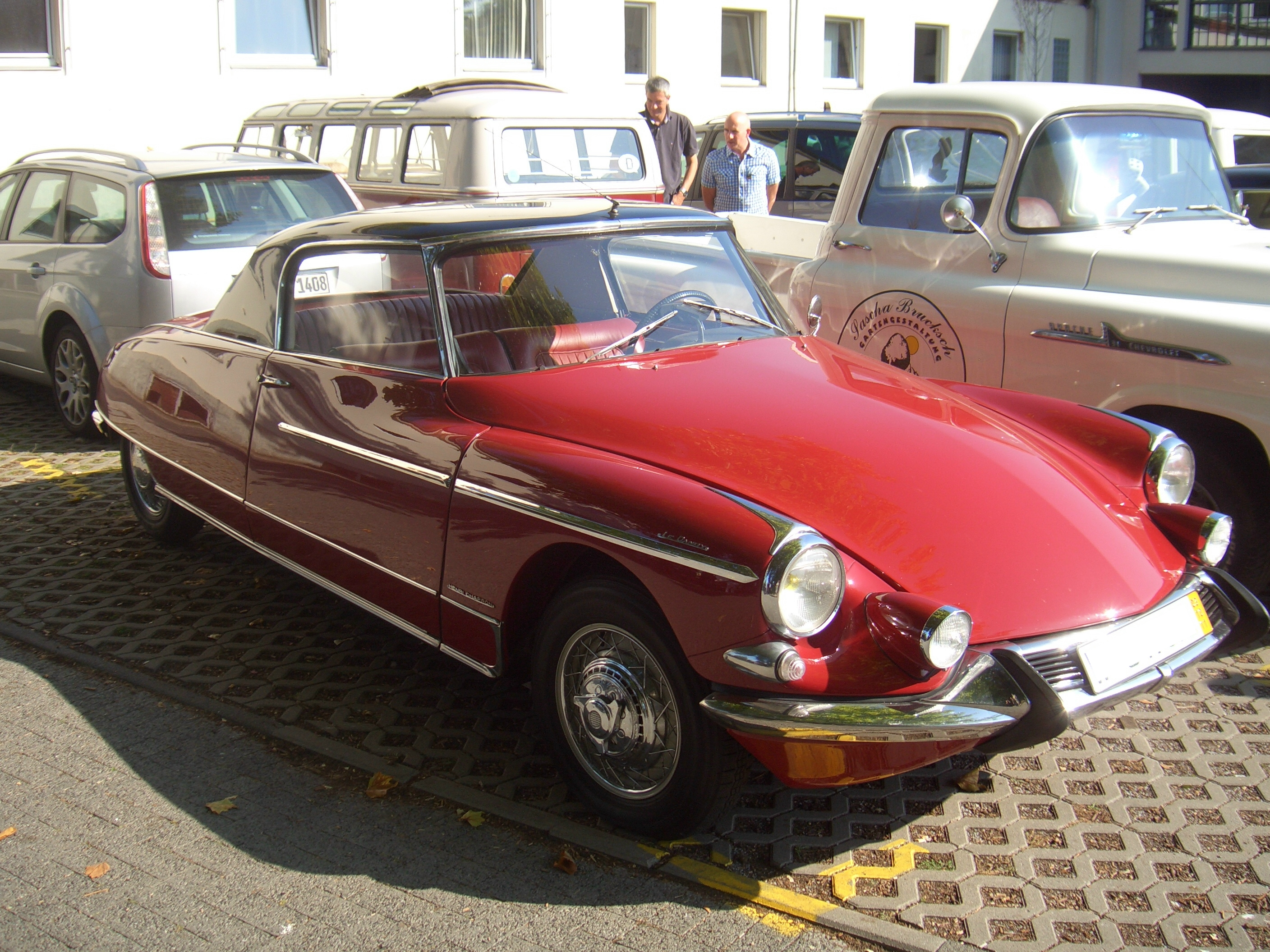 Chapron Le Dandy, Citroen DS-based coupe designed by coachbuilder Henri Chapron